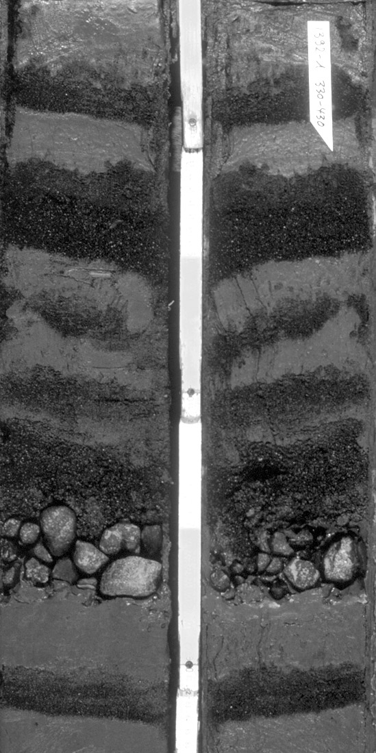 Palaeoclimate archives: Sediment core with gravel and sand layers from the Antarctic continental slope